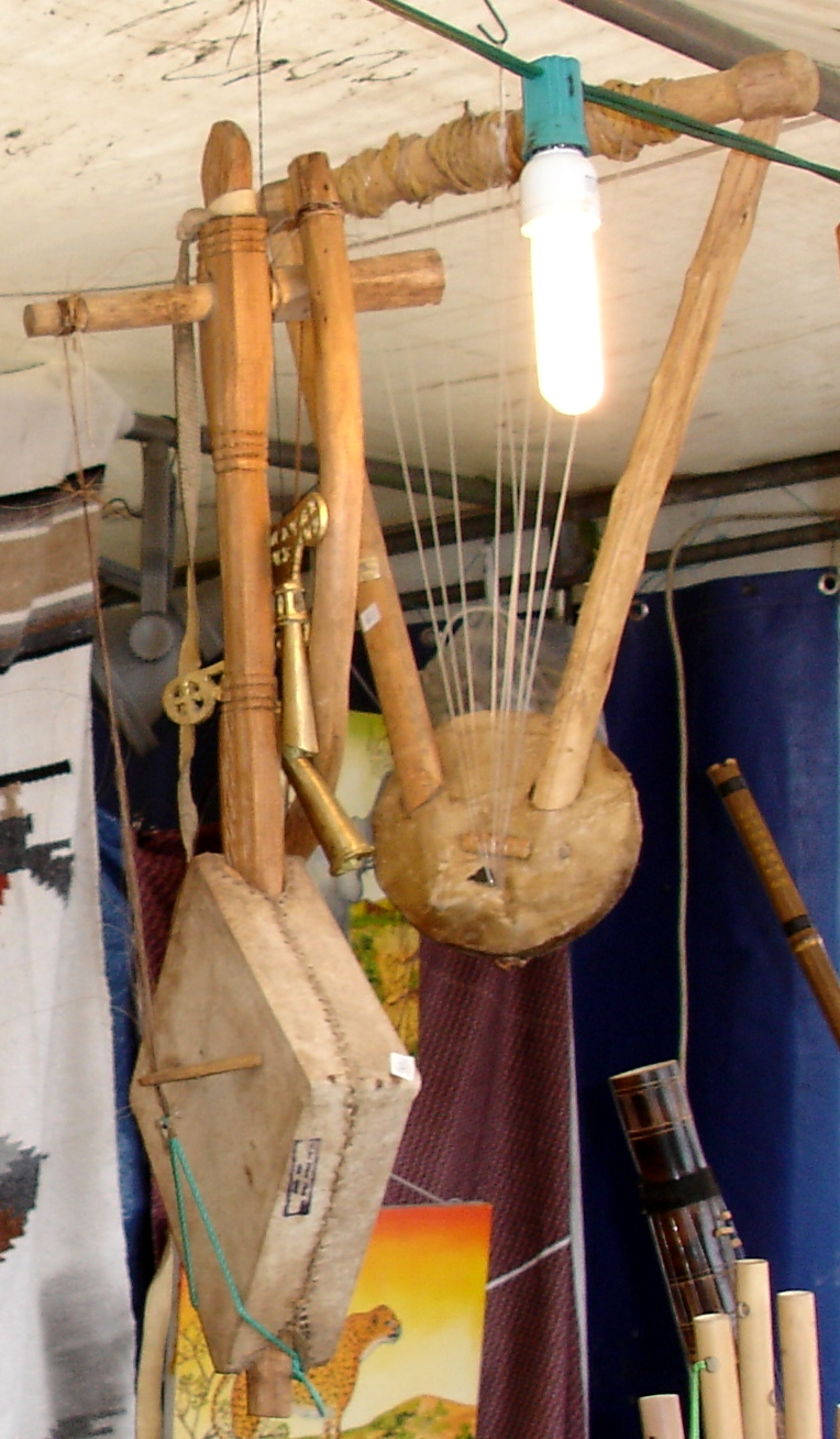 A masinko (left) and krar (right) from Ethopia.